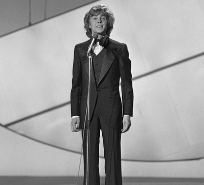 Jürgen Marcus at a rehearsal for the Eurovision Song Contest 1976.